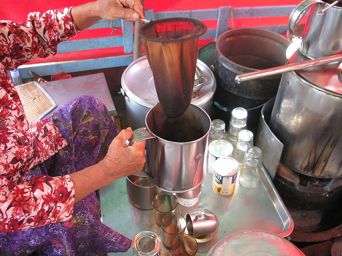 Kafae, tradtional Thai coffee. Near Wat Phra Norn, Suphanburi province, Thailand.